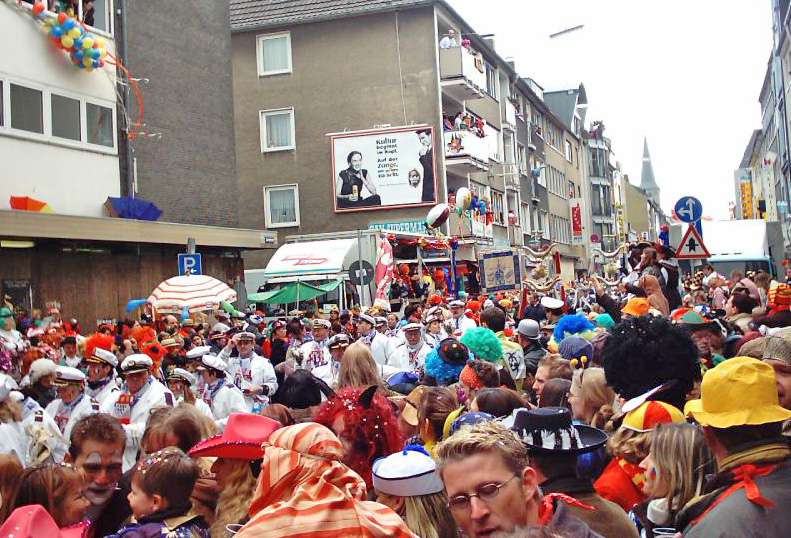 Cologne carnival in 2004